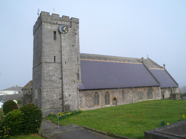 Grade II listed Parish Church of All Saints, Oystermouth, Swansea. Viewed from a road named Church Park. The first record of a church here was in 1141. There is evidence that the ancient Romans had a villa on this site. When the church building was being extended in 1860, workmen excavating the south side of the grounds found a tessellated Roman pavement (mosaic flooring). The tower is Norman, built in an era of clashes between the native Welsh and the Anglo-Normans. The stairs in the tower ascend in an anticlockwise direction designed to ensure that the sword arm (right) remained free. The church was Grade II listed in April 1952.